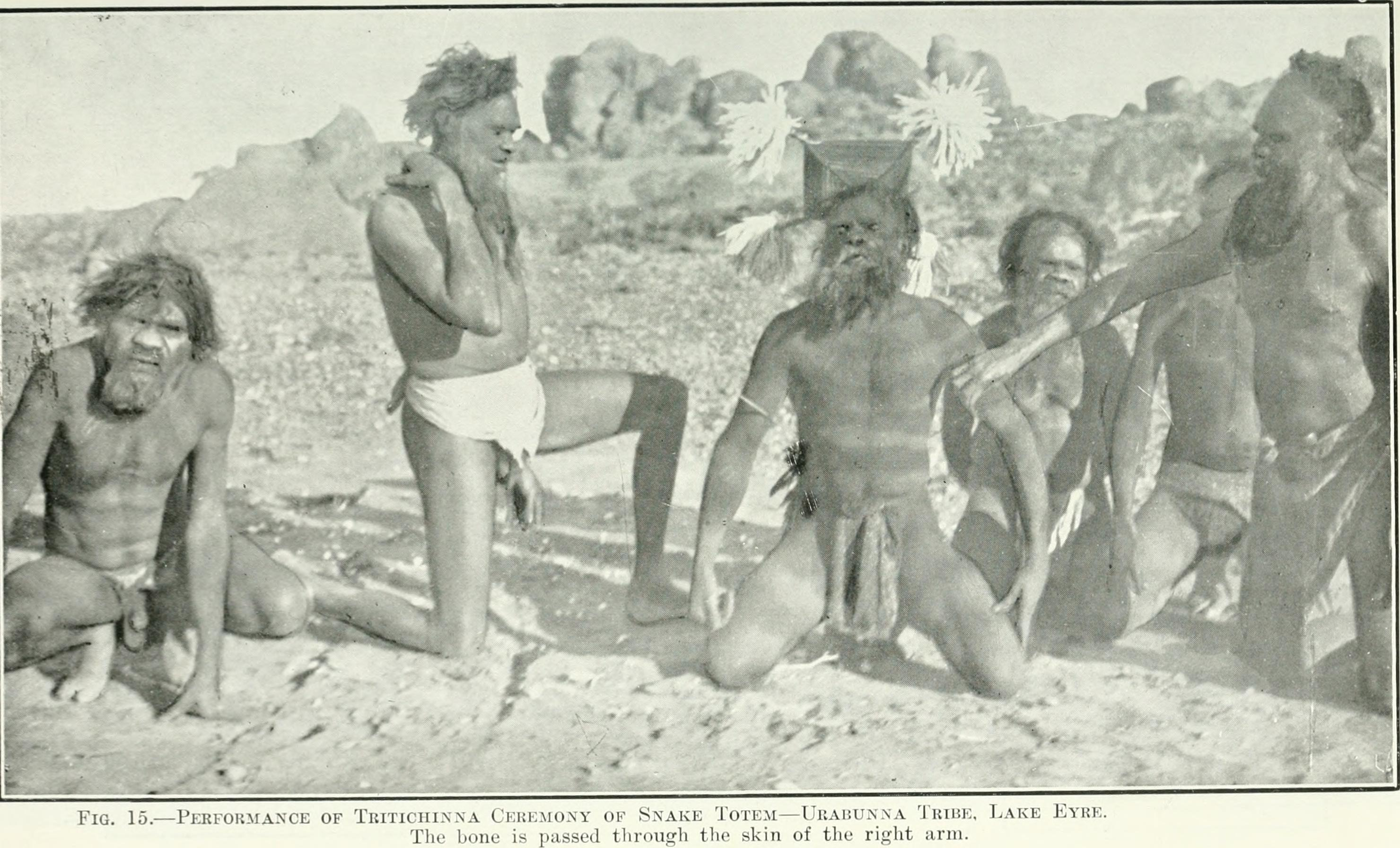 Title: The commonwealth of Australia; federal handbook, prepared in connection with the eighty-fourth meeting of the British association for the advancement of science, held in Australia, August, 1914 Year: 1914 (1910s) Authors: British Association for the Advancement of Science. Federal Council in Australia Australia. Commonwealth Bureau of Census and Statistics Knibbs, George Handley, 1858-1929 Subjects: Australia Publisher: Melbourne : A. J. Mullet, government printer Text Appearing Before Image: Aboriginals of Australia. 63 Text Appearing After Image: 64 Federal Handbook.